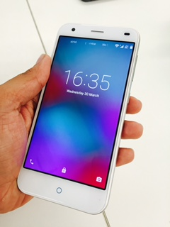 This is an image of LYF WATER 2 phone